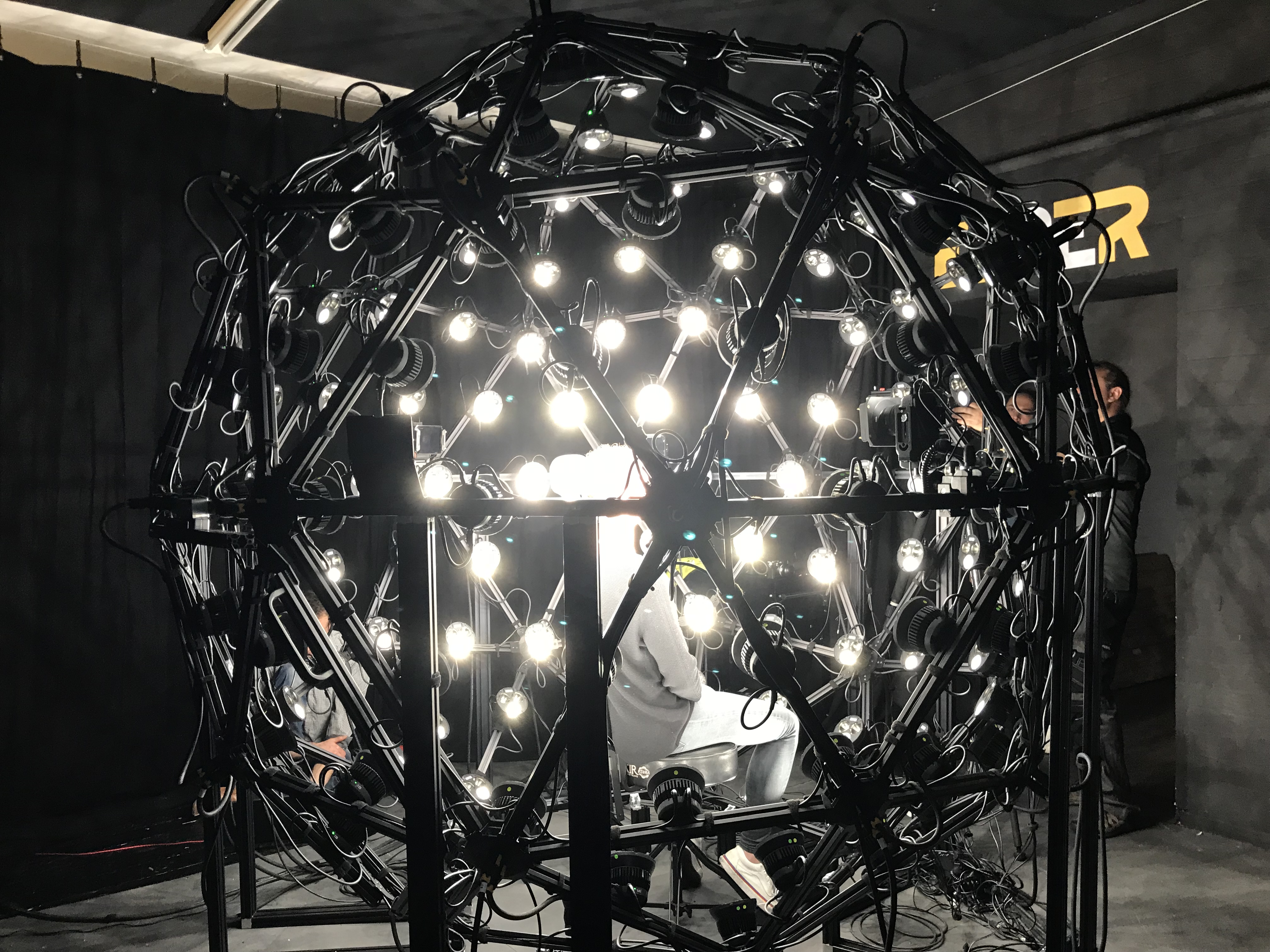 3D Face Scanning Rig